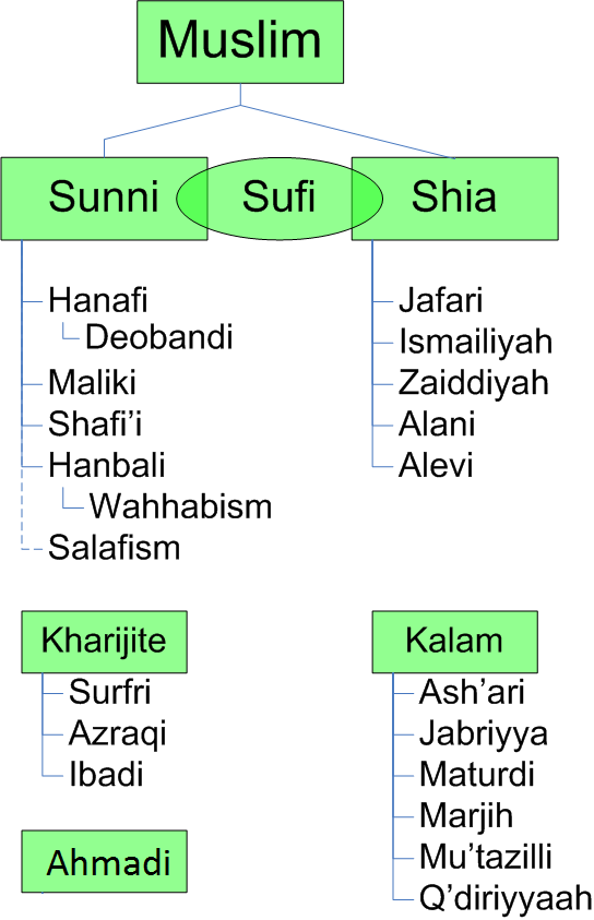 Diagram of the divisions, sects, schools, and traditions within Islam, as described at Divisions of Islam